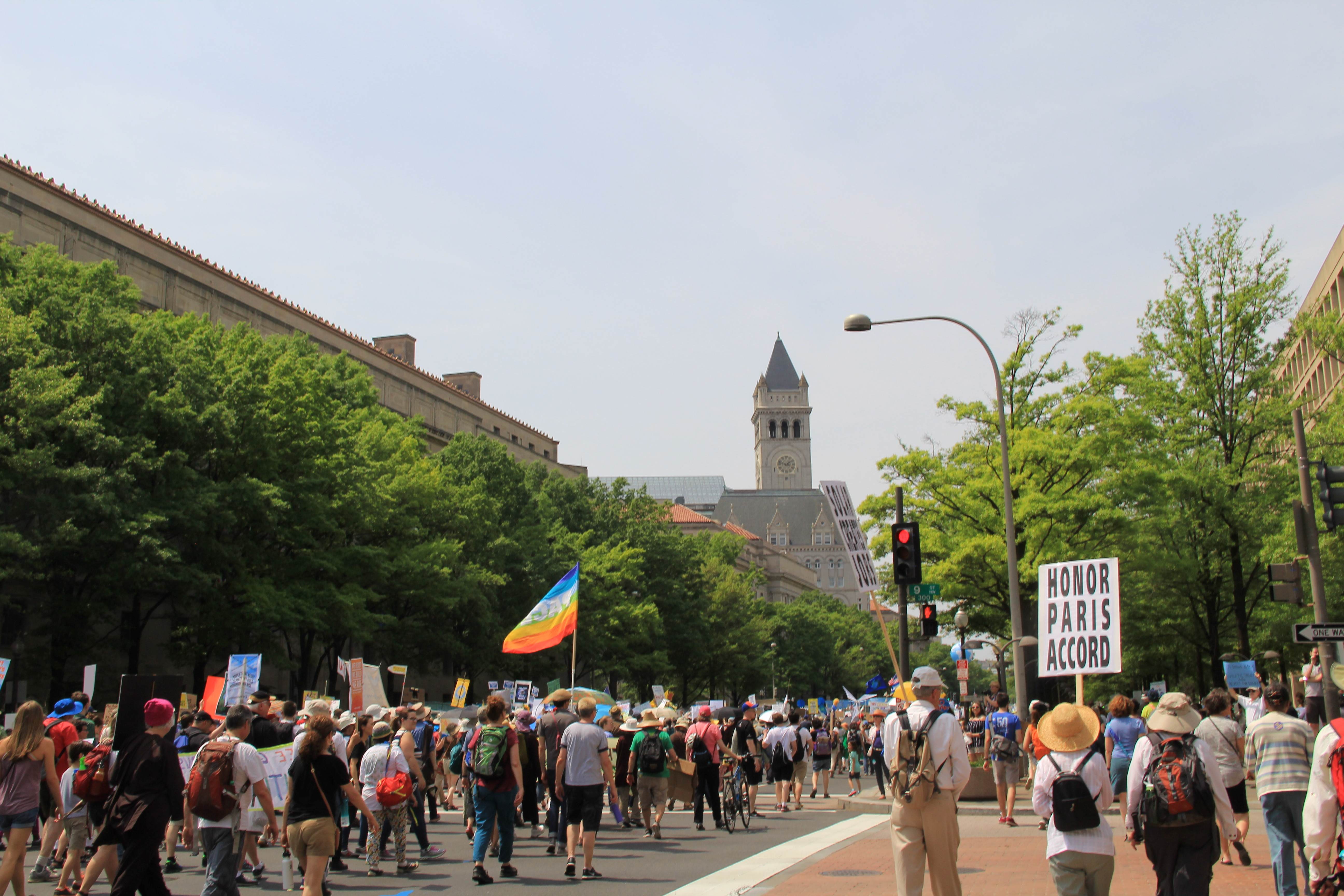 People's Climate March 2017 in Washington DC. Crowd marching toward Trump Hotel with rainbow flag and sign Honor Paris Accord.